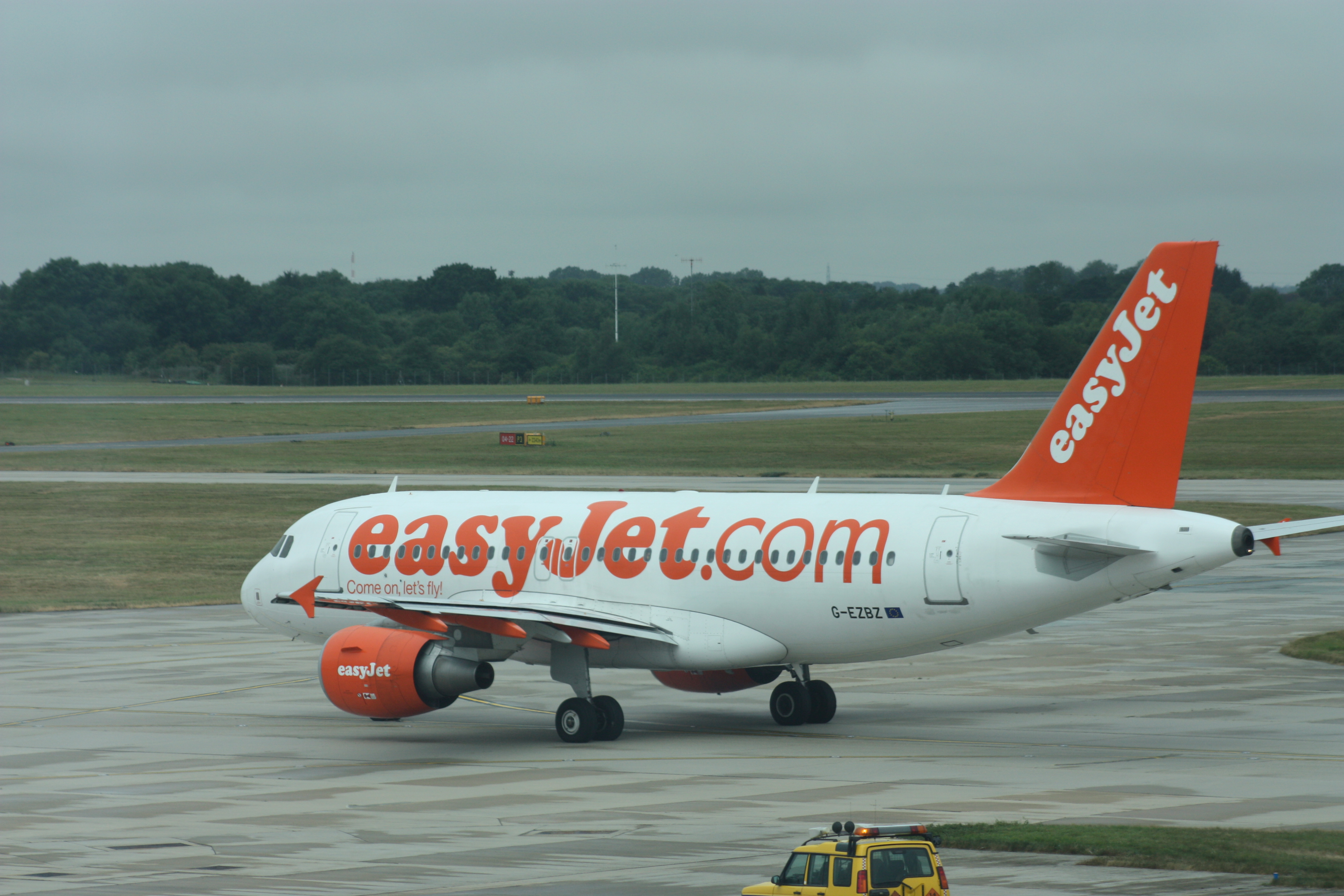 Easyjet (G-EZBZ) Airbus A319 aircraft, London Stansted Airport, Essex, England, July 2010